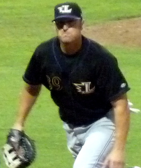 Ben Jukich of the Louisville Bats picks off Brian Barton at first base during a 2009 game at Gwinnett Stadium in Gwinnett, Georgia. Kevin Barker plays first base.